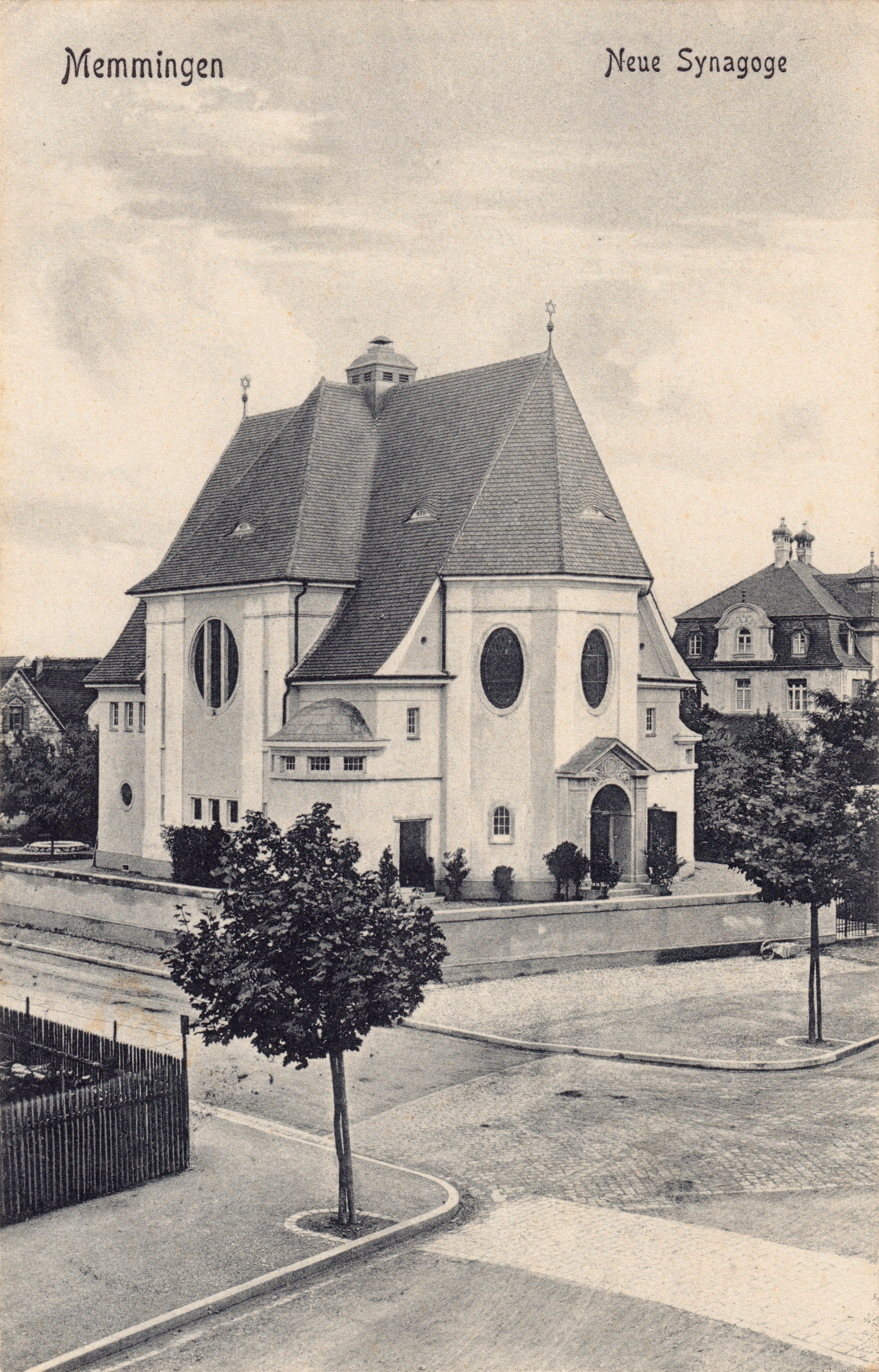 Postcard showing New Synagogue, Memmingen